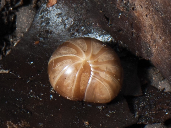 Eupeyerimhoffia archimedis (Strasser, 1965) female rolled up. Italy.